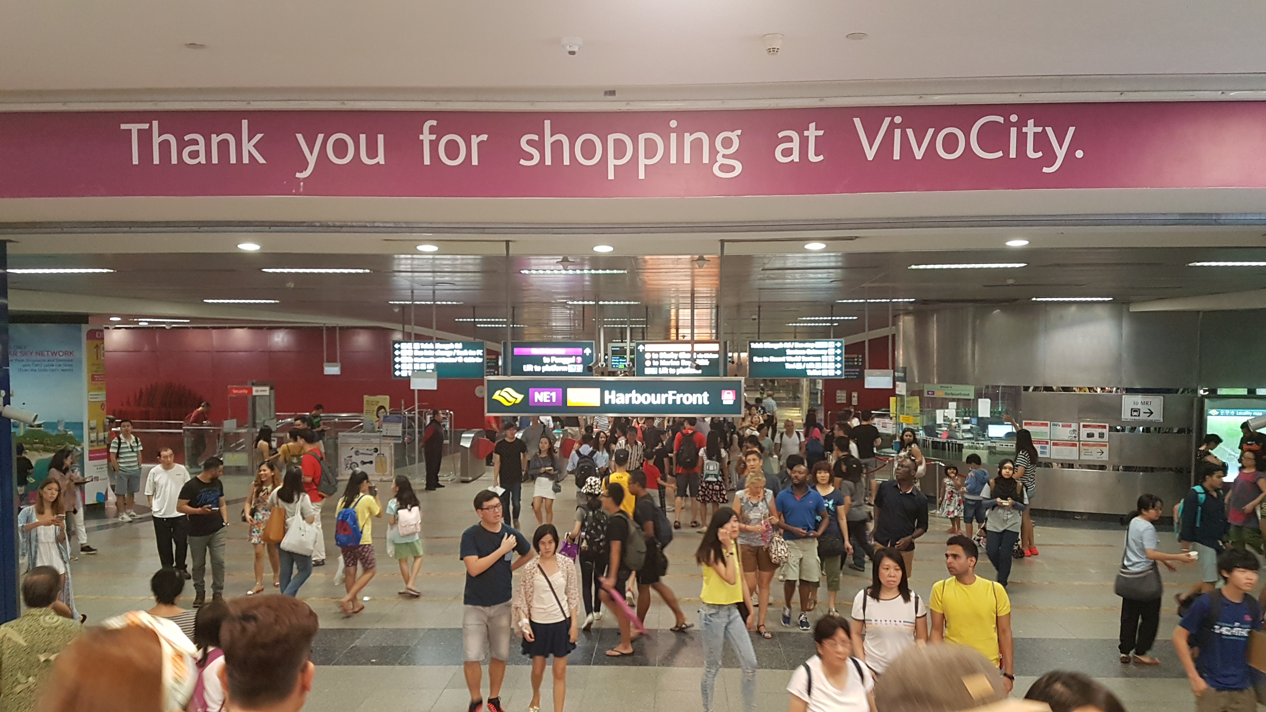 A busy interchange between the Harbourfront MRT station and the VivoCity shopping centre.